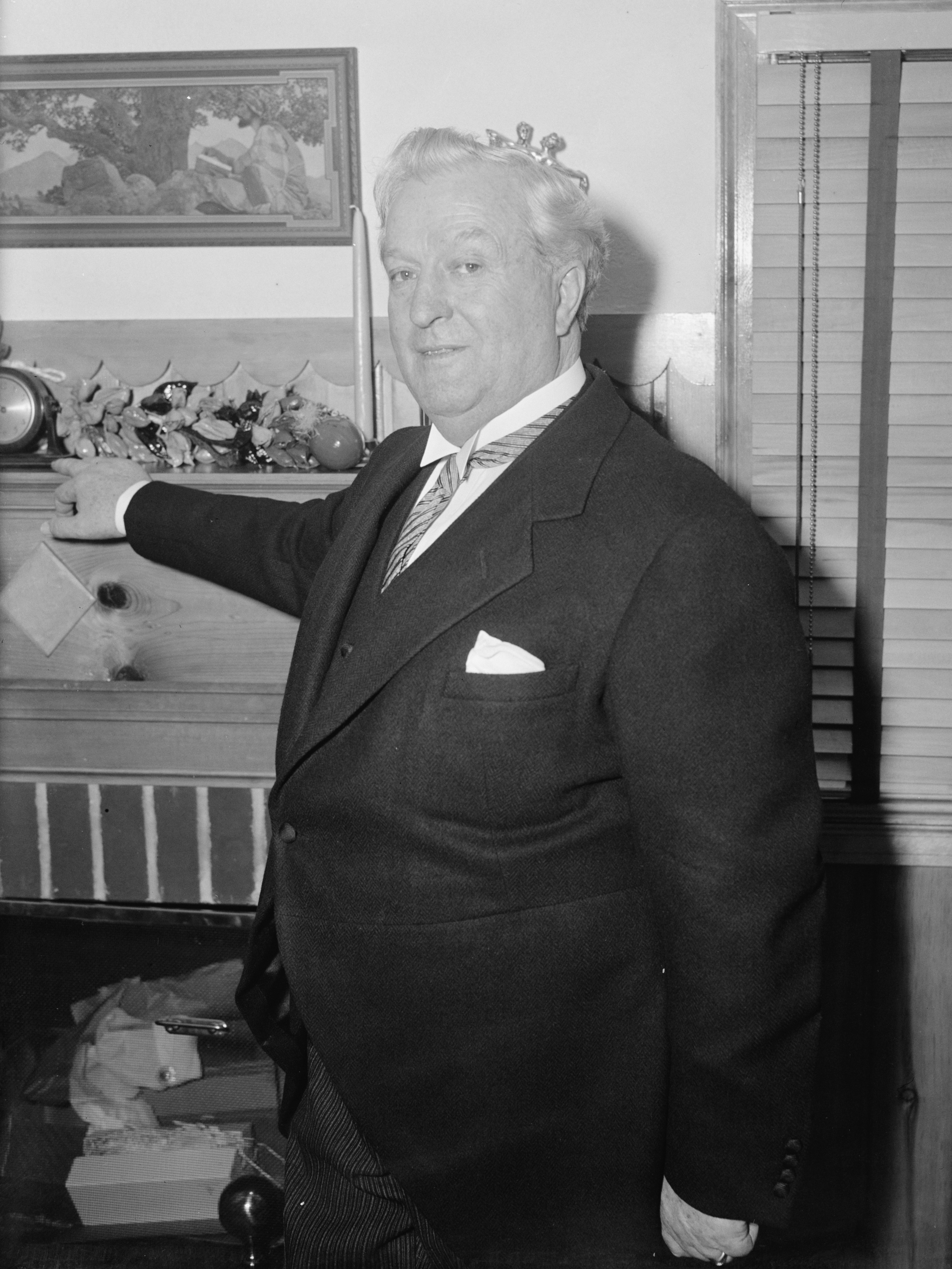 Title: Nevada Senator. Washington, D.C., April 24. A new informal picture of Senator Pat McCarran, democrat of Nevada Abstract/medium: 1 negative : glass ; 4 x 5 in. or smaller